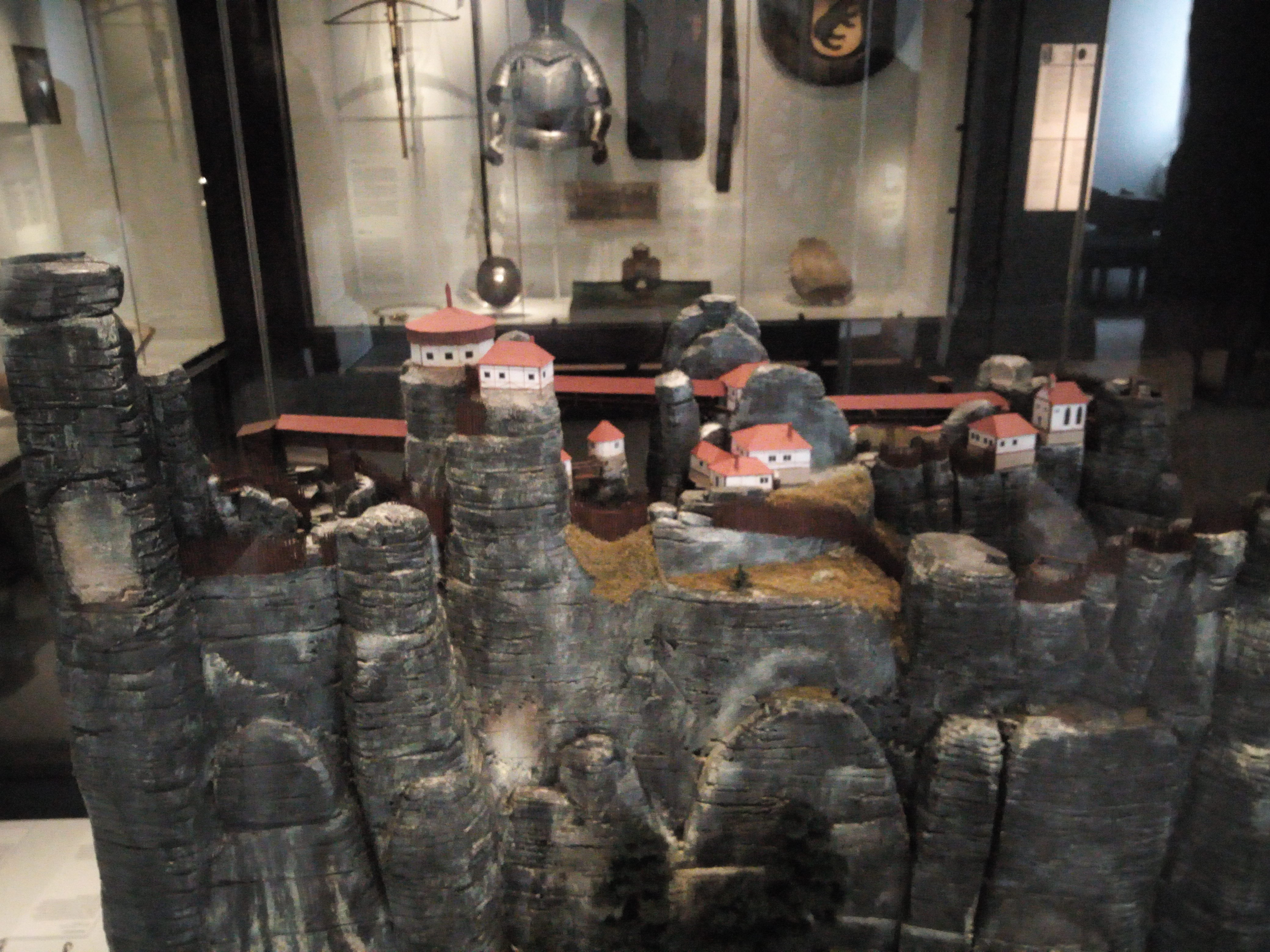 photo of reconstruction model of Neu-Rathen castle in Military History Museum Dresden, 2019